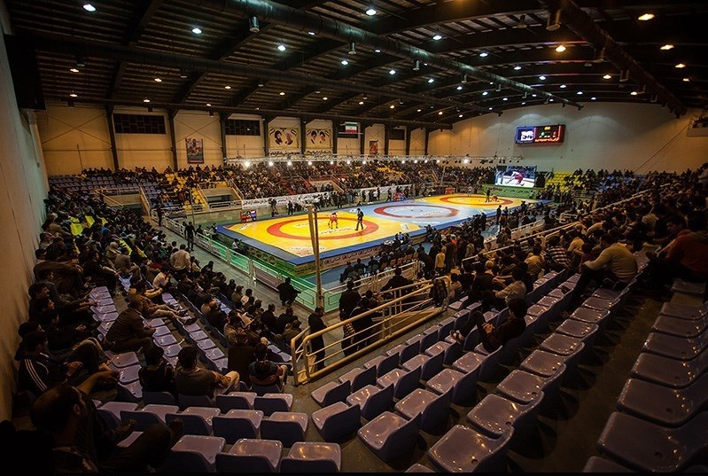 Wrestling in the Azad University of Babol, Mazandaran Province, Iran